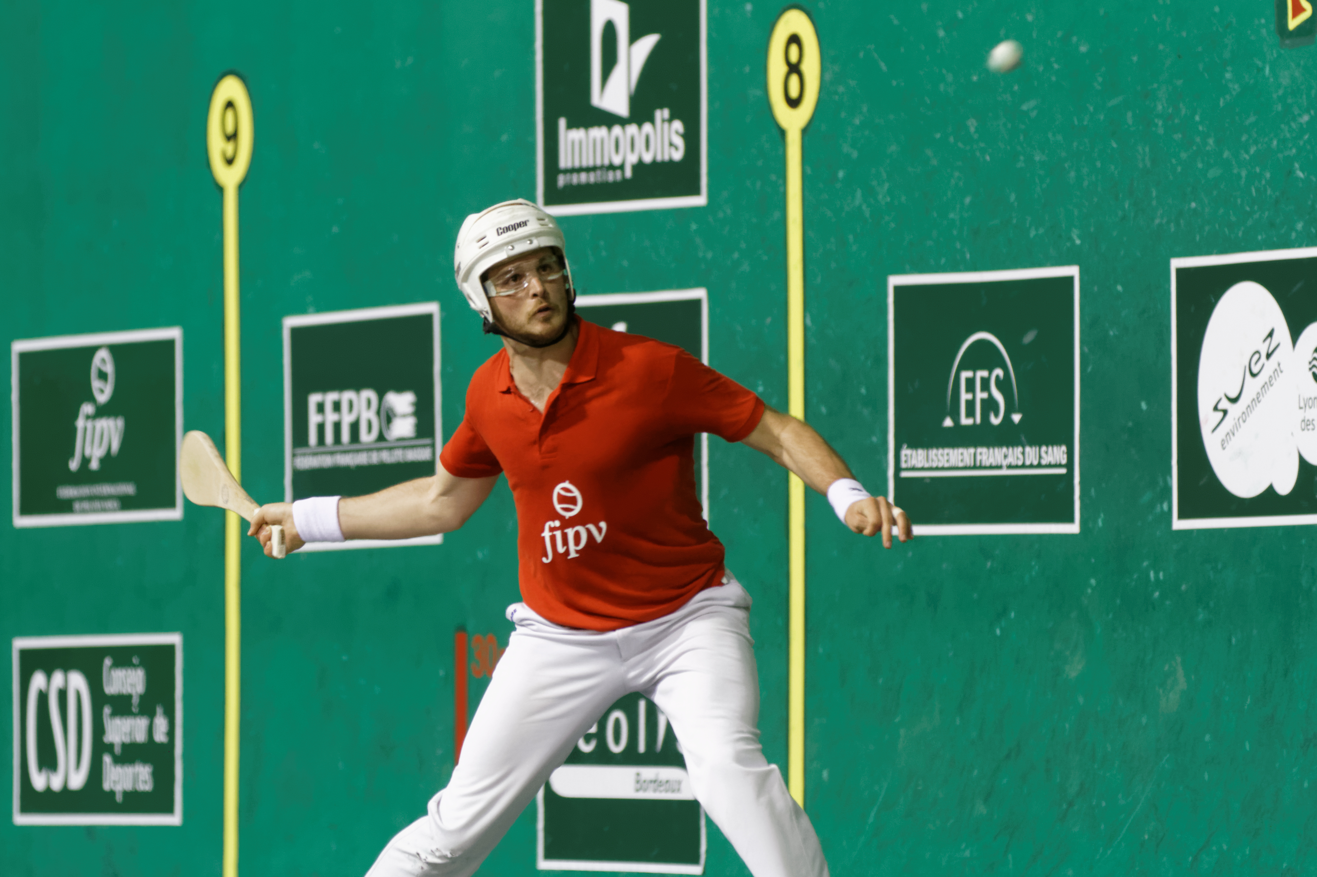 2013 Basque Pelota World Cup, 27th October - 2 November 2013, Le Haillan, France. Paleta Cuero. France (Thomas Iris - Sylvain Brefel) vs Spain (Ruben Ayarra - Emiliano Skufca).